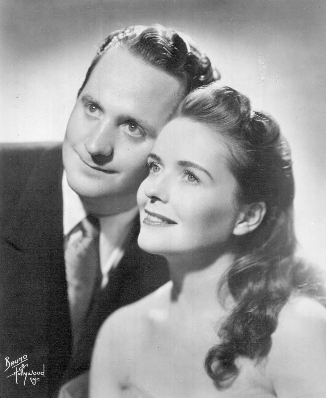 Photo of Les Paul and Mary Ford.